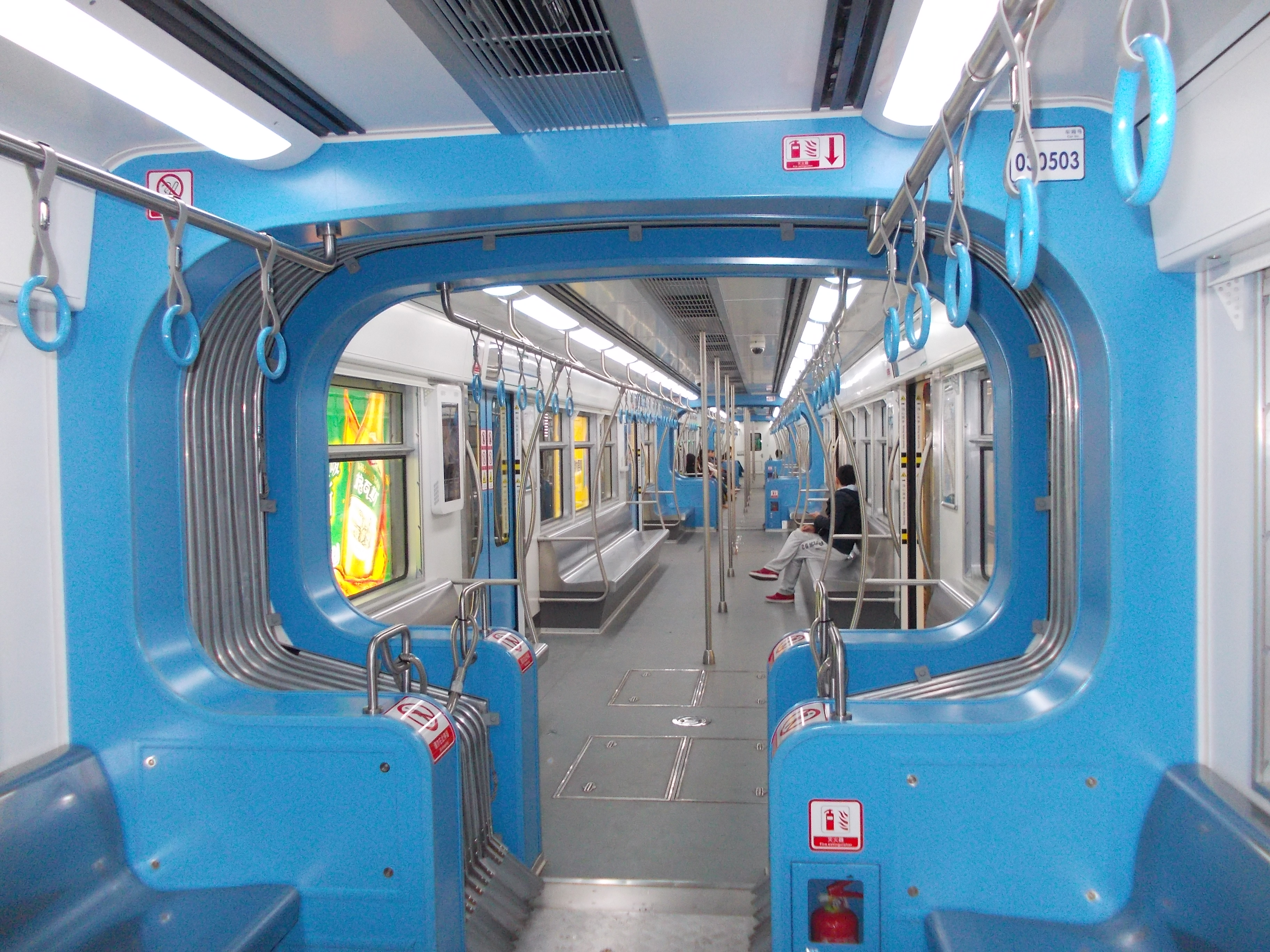 Chongqing Rail Transit - Line 3 train